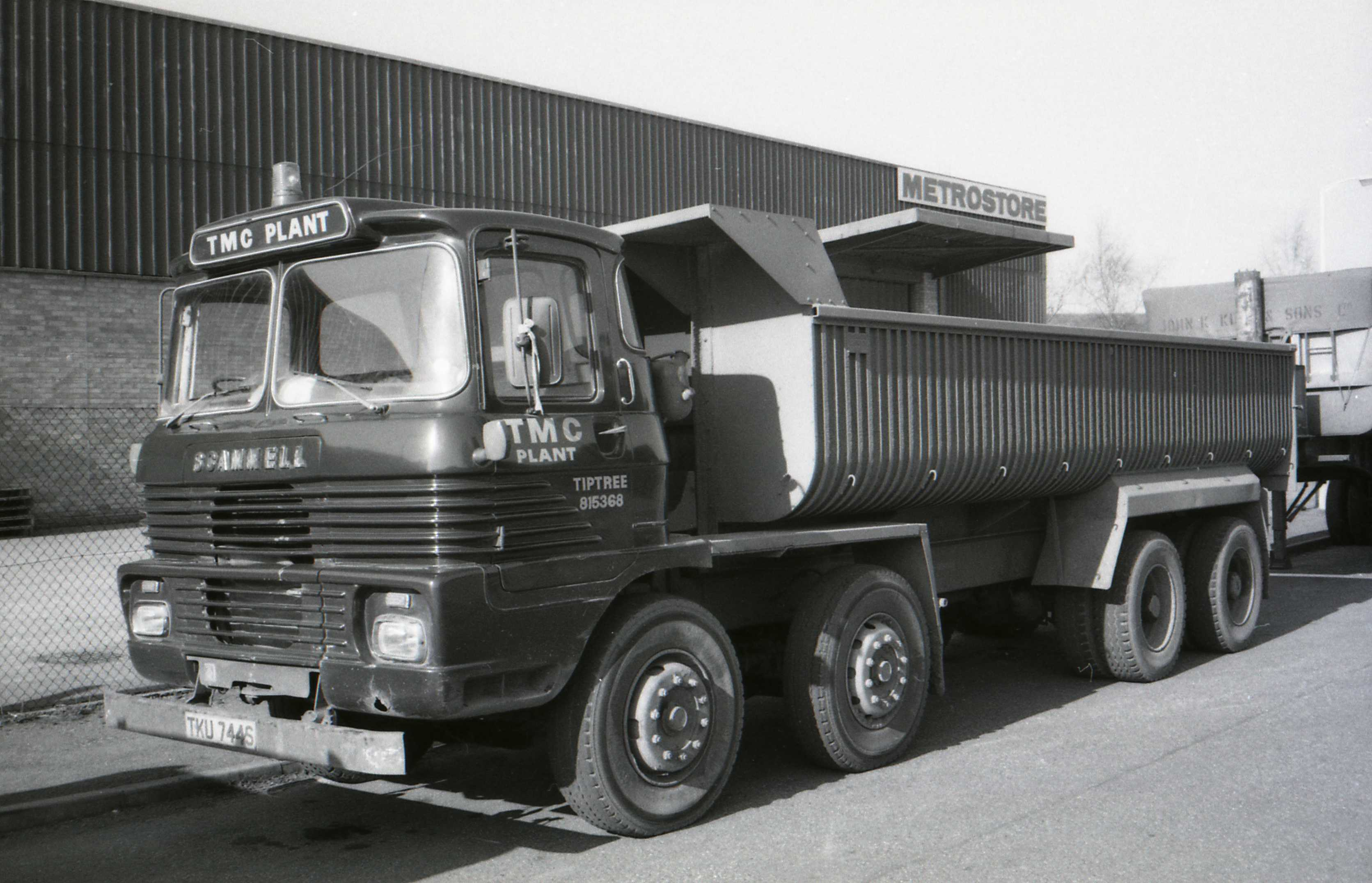 TMC stands for TIptree Manure Company,and the offshoot firm, TMC Haulage is still in business. They had a large fleet of tippers like this in the late 1970s. This one was very new at the time of the photo which was taken, from memory, in a side street off the Causeway between Maldon and Heybridge.. The design of cab would not look out of place 30 years later. This vehicle seems to have been registered in Yorkshire. As modified here New 17 Feb 1978. Delicensed by 1 December 1983 - rather a short life!